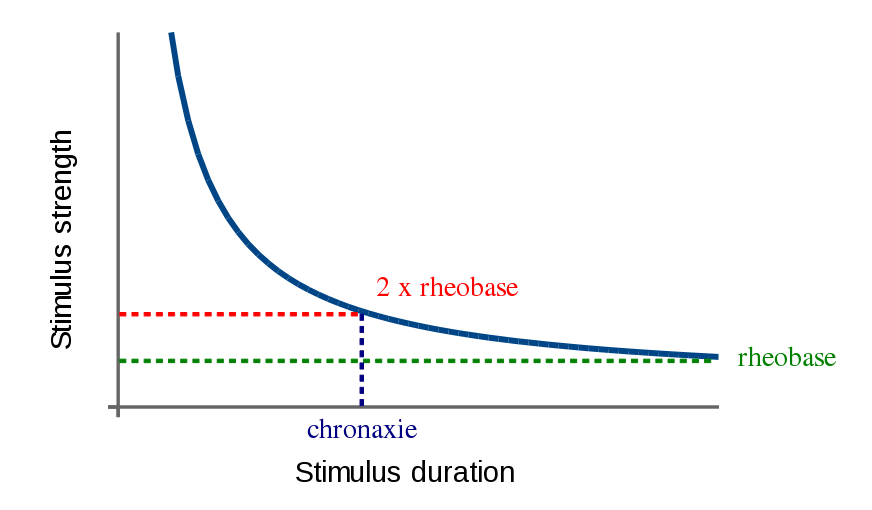 Rheobase and chronaxie are points defined along the strength-duration curve for an excitable tissue.